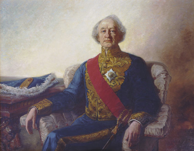 official portrait, Parliament Buildings, Ottawa, Canada